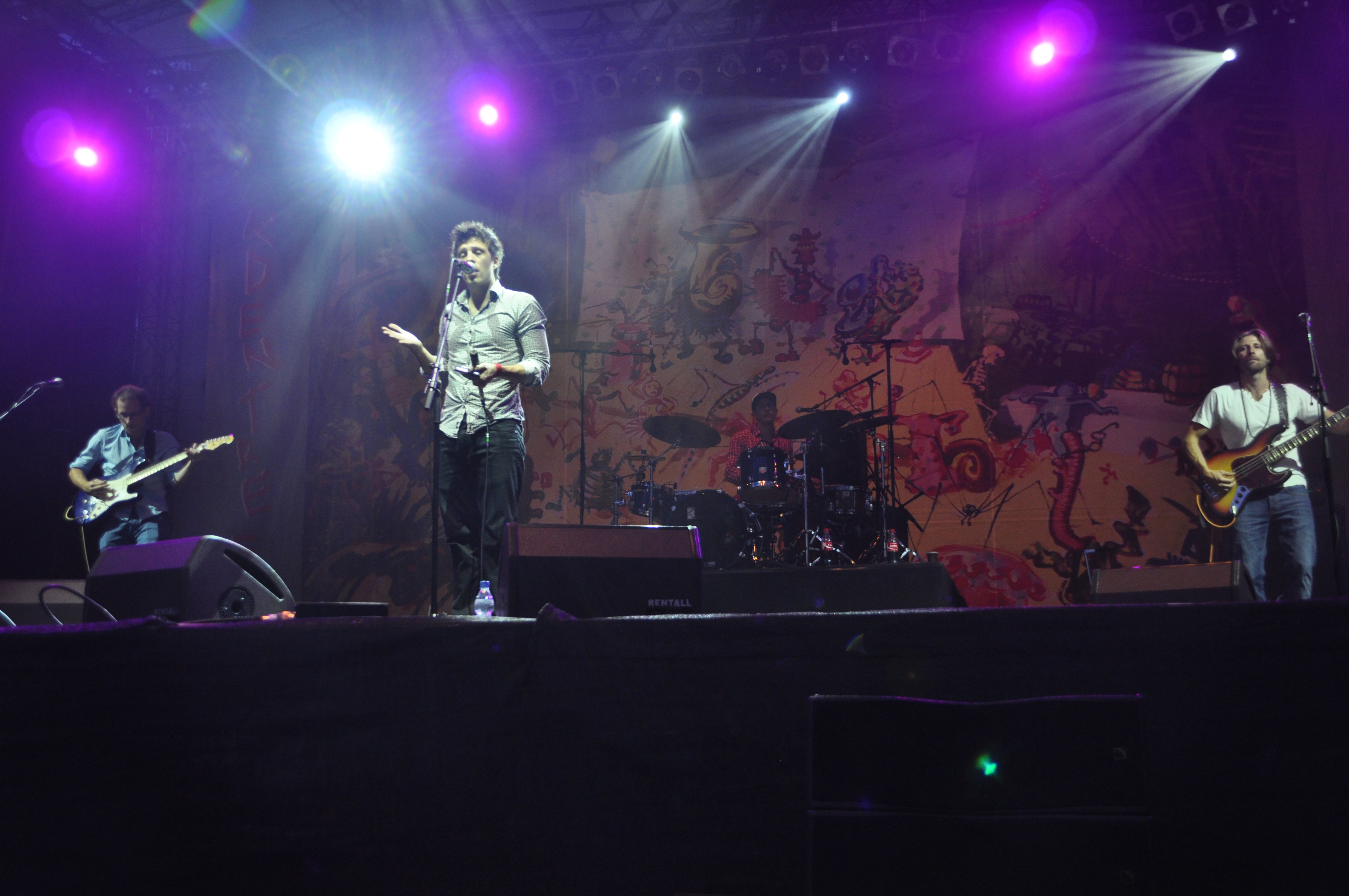 Charles Pasi (France), appearance at the 38th music festival "Bardentreffen" 2013 in Nuremberg, Germany, Hauptmarkt stage